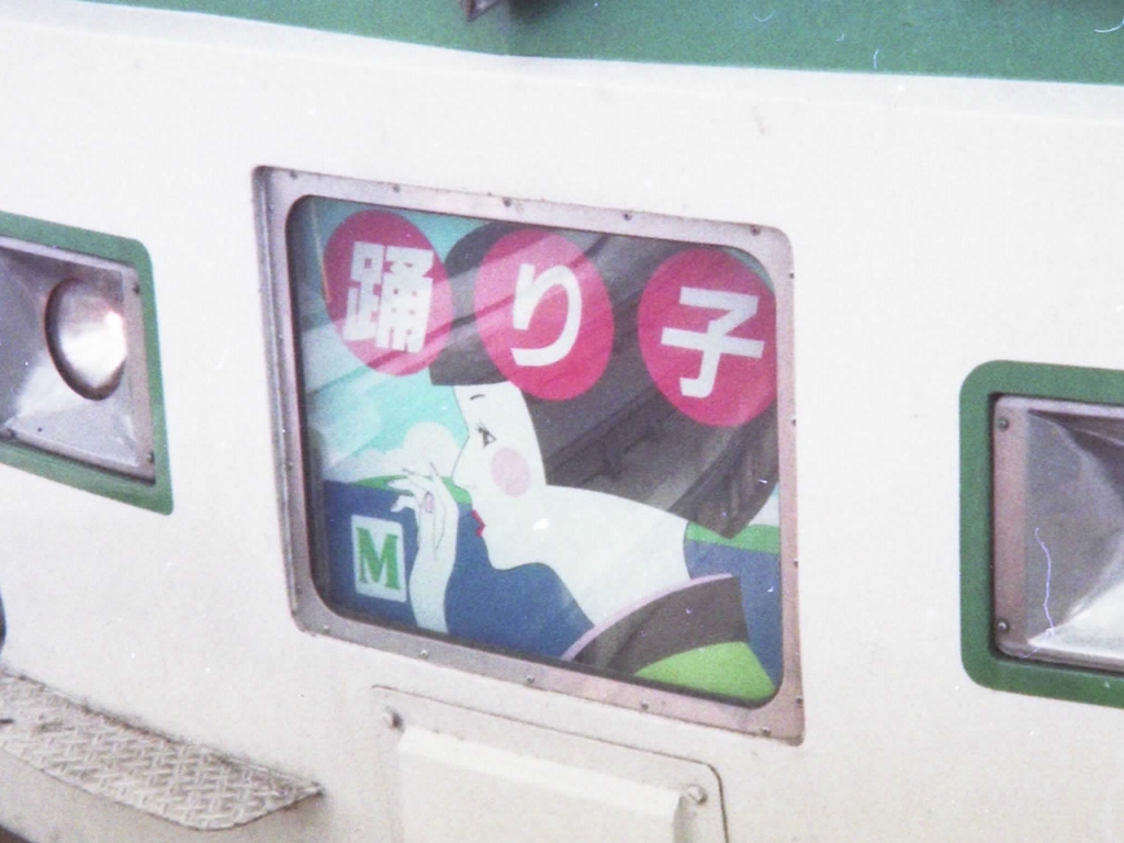 Head sign of East Japan Railway Company EMU Type 185 "Montress Odoriko"